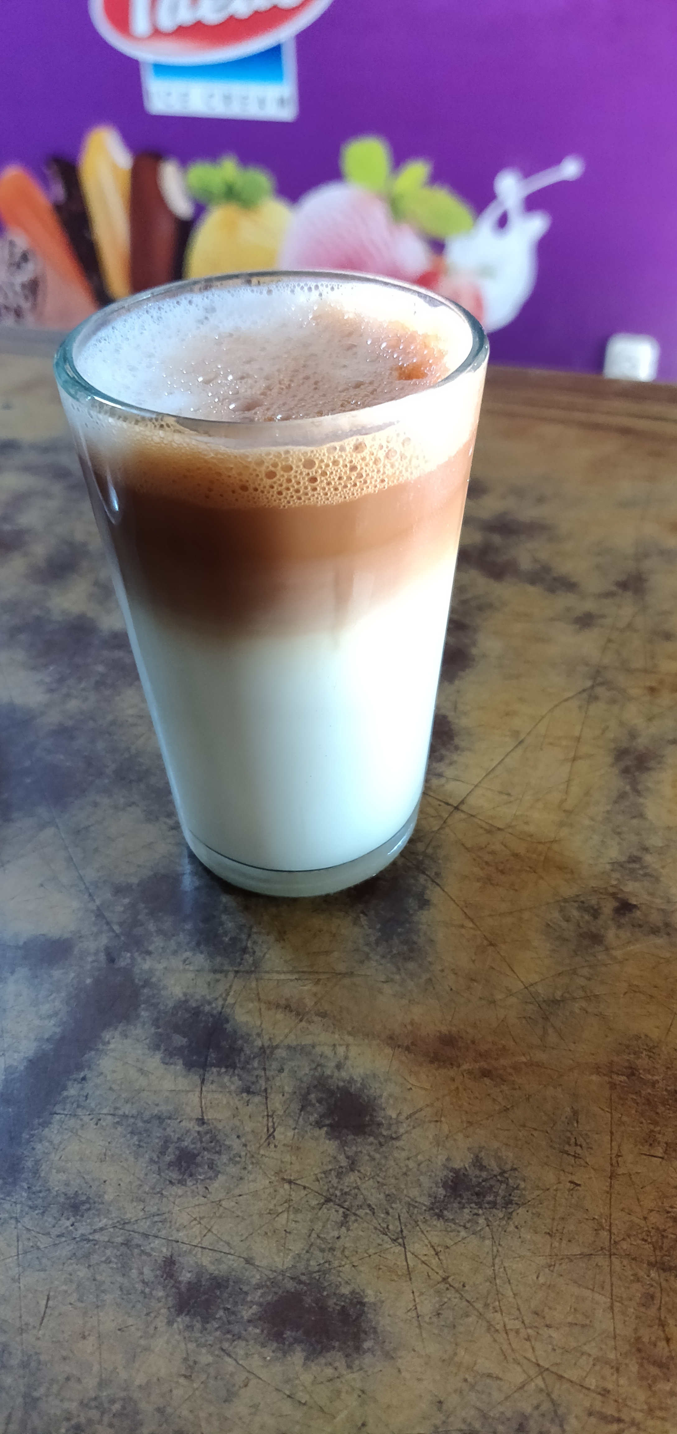 Kalladka Tea, famous tea made at a place called Kalladka, in Dakshina Kannada Dist, Karnataka ಕನ್ನಡ: ಕರ್ನಾಟಕದ ದಕ್ಷಿಣ ಕನ್ನಡ ಜಿಲ್ಲೆಯ ಕಲ್ಲಡ್ಕ ಎಂಬ ಊರಿನಲ್ಲಿ ದೊರೆಯುವ ಪ್ರಖ್ಯಾತ ಚಹಾ